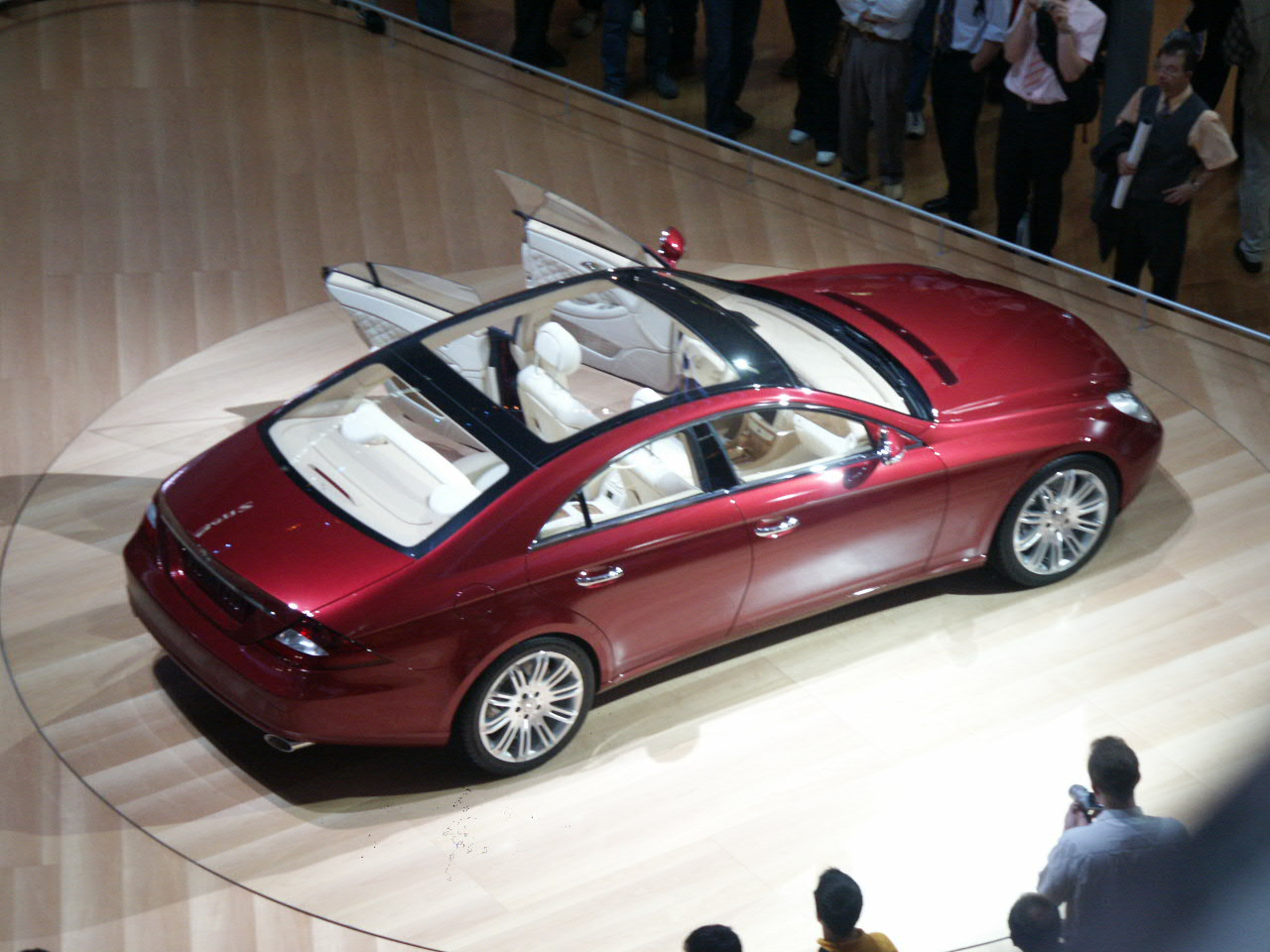 Mercedes Benz Vision CLS, upper view (C219)